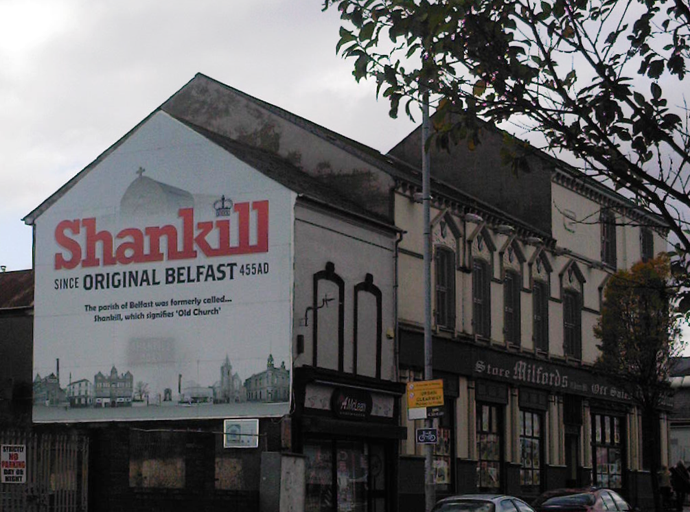 Mural on the Shankill Road, Belfast